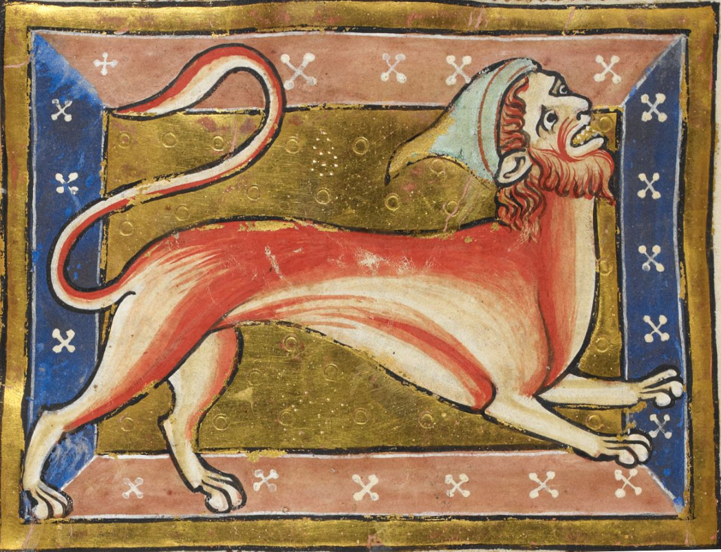 Manticore- Bestiary, Royal MS 12 C XIX; 1200-1210